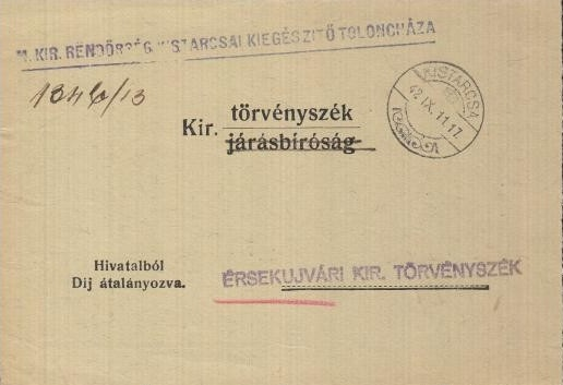 delivery receipt of a package, Reserve Detention House, Kistarcsa